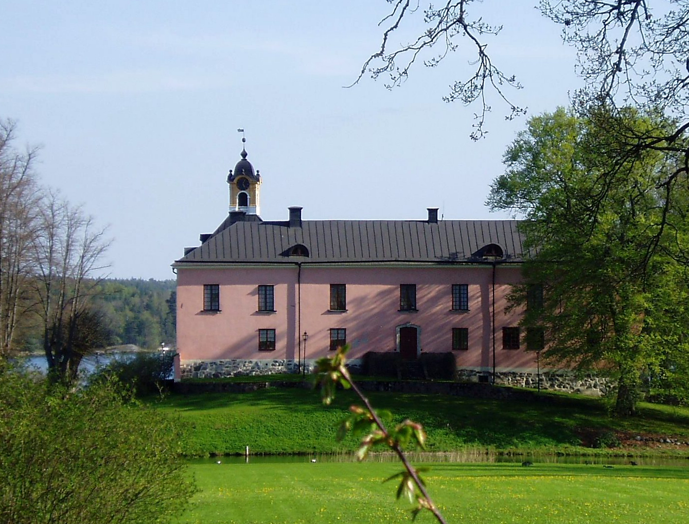 Rydboholm castle, Uppland, Sweden